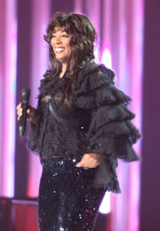 Donna Summer at The Nobel Peace Price Concert 2009